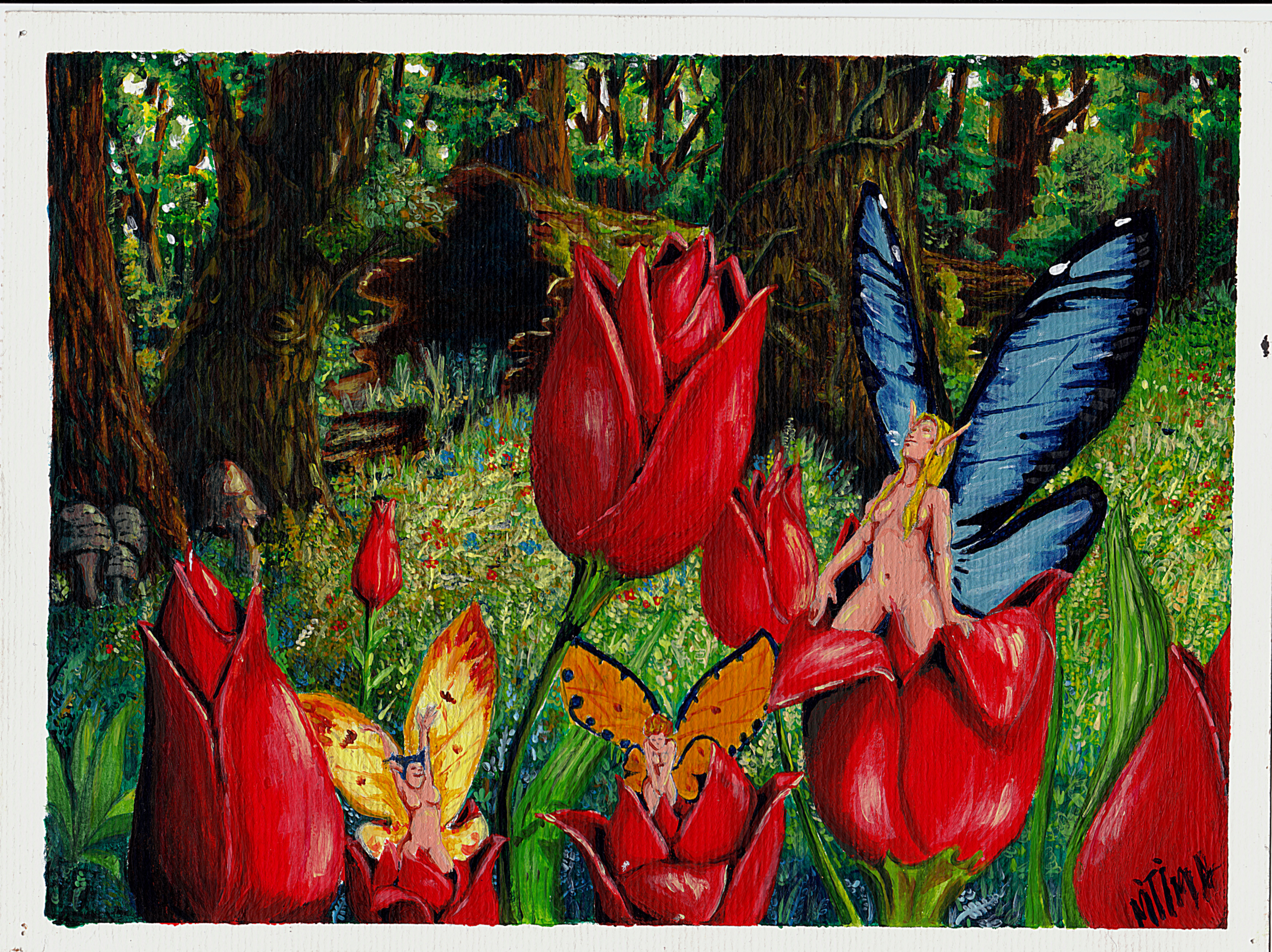 crayon drawing "Birth of a Fairy". Fairies emerging from red tulips.